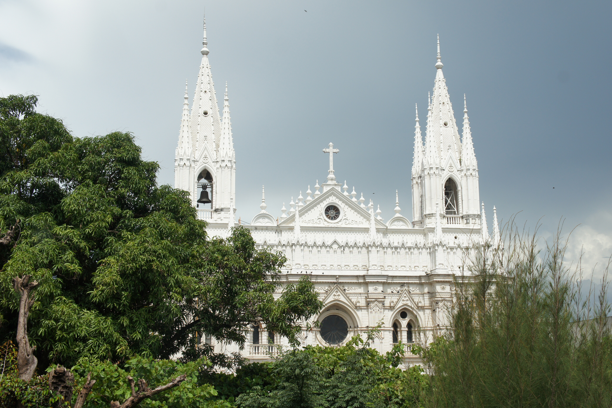 Santa Ana Cathedral, Santa Ana, El Salvador